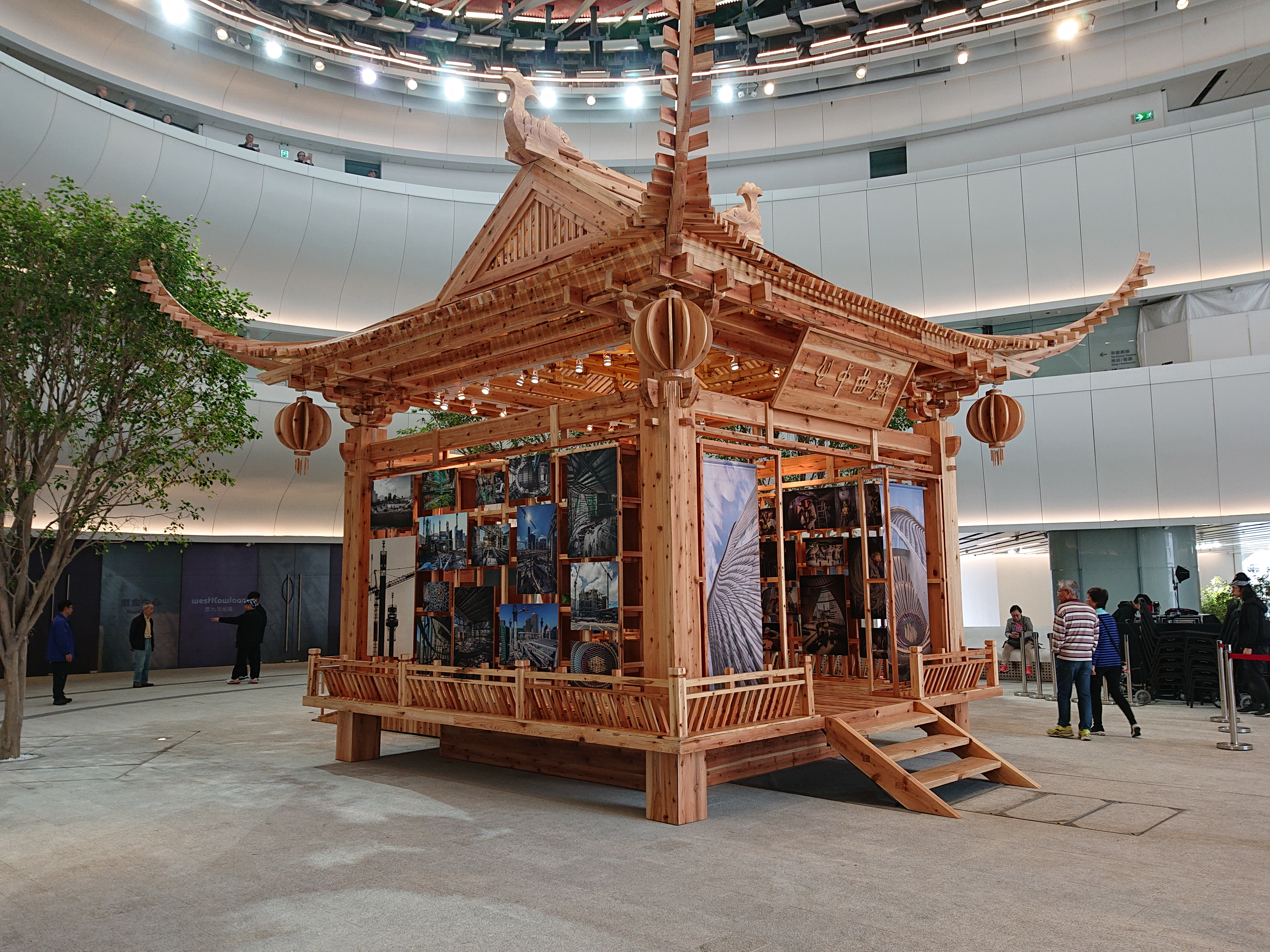 Xiqu Centre Atrium Wooden House